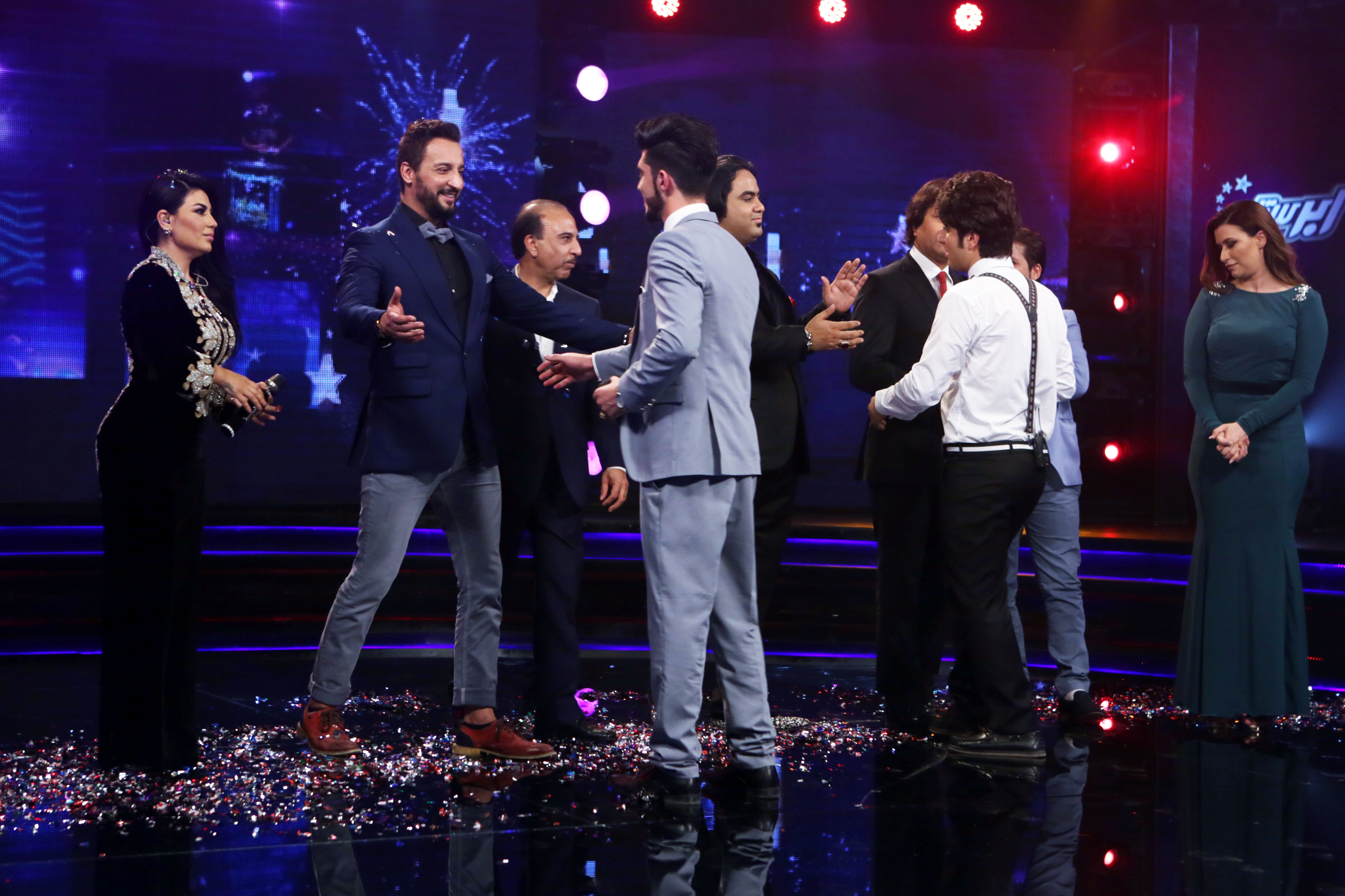 Afghan Star on TOLO TV